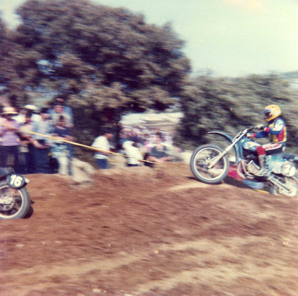 Toni Elias with his Bultaco Pursang 125 at Circuit del Cluet, Montgai (Catalonia), during the 1978 spanish MX GP 125cc.